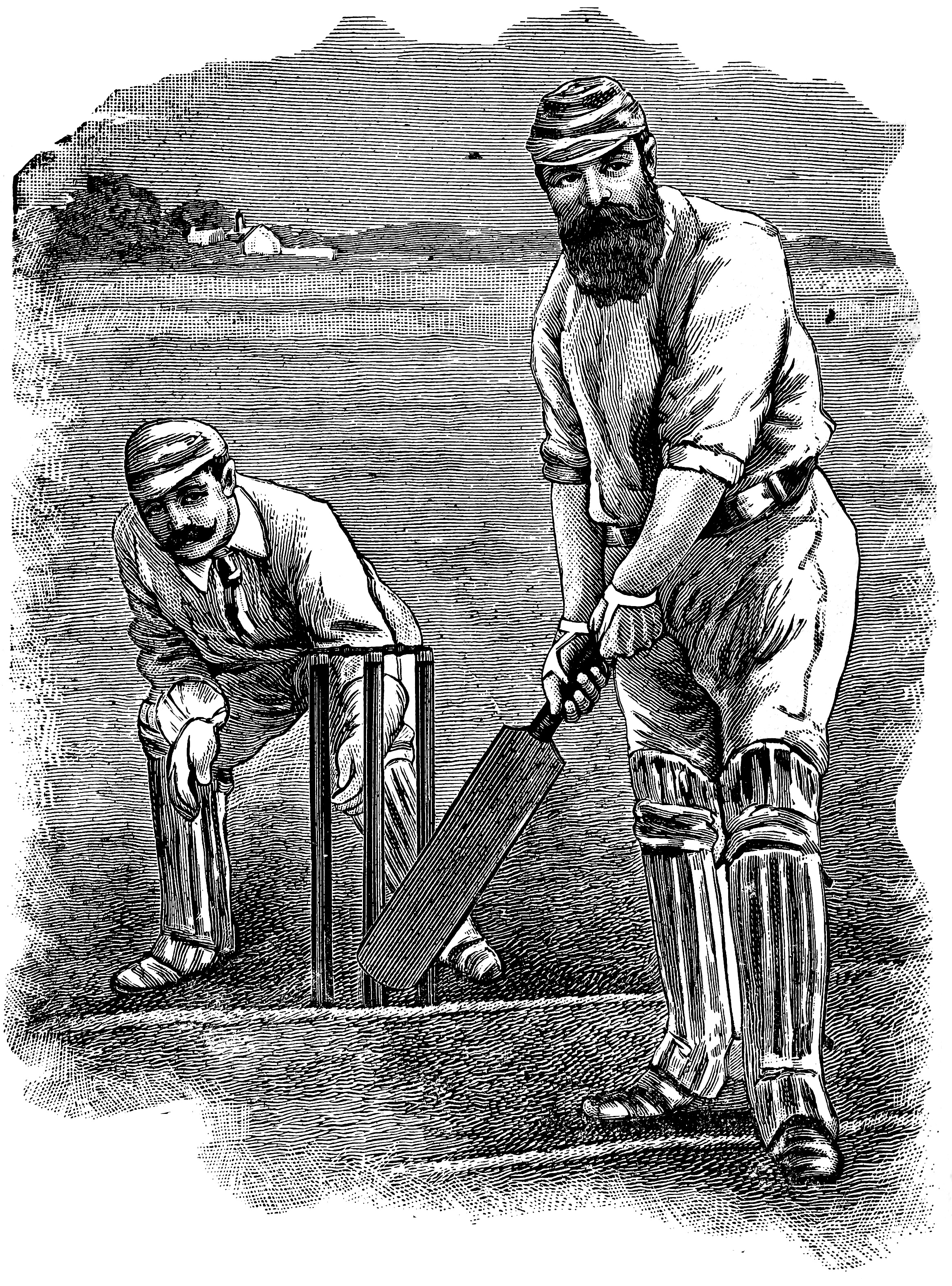 Cricket players from a 1905 advertisement